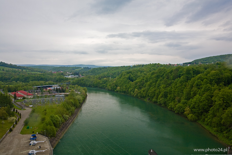 Solina - San.